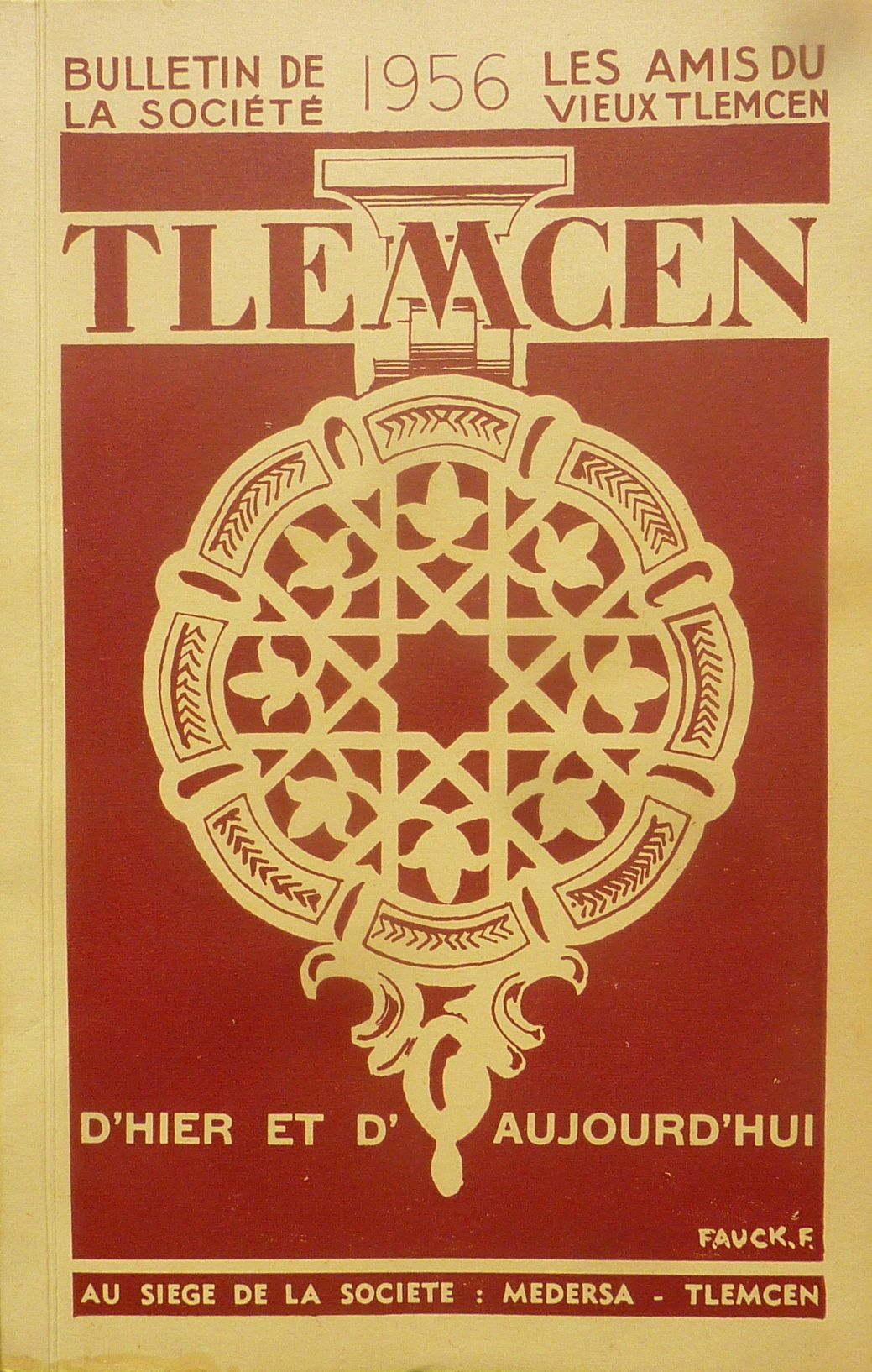 Couverture de François Fauck